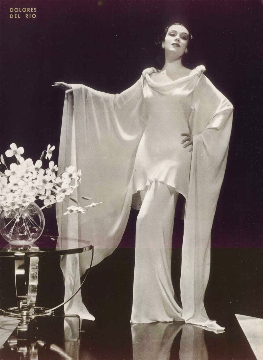 Publicity photo of Dolores del Rio for Argentinean Magazine. (Printed in USA)